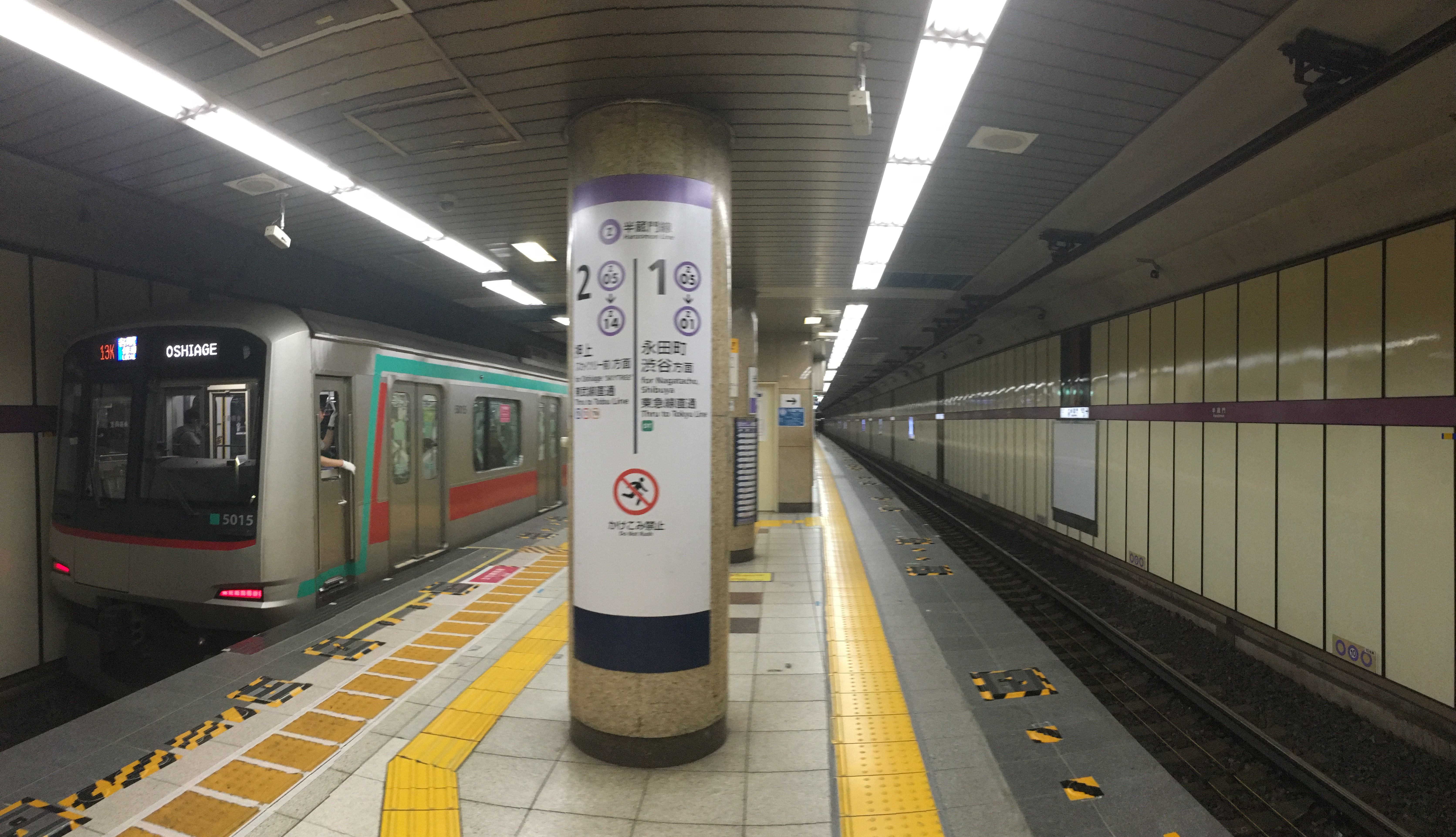 半蔵門駅のホーム (Hanzōmon Station platform)